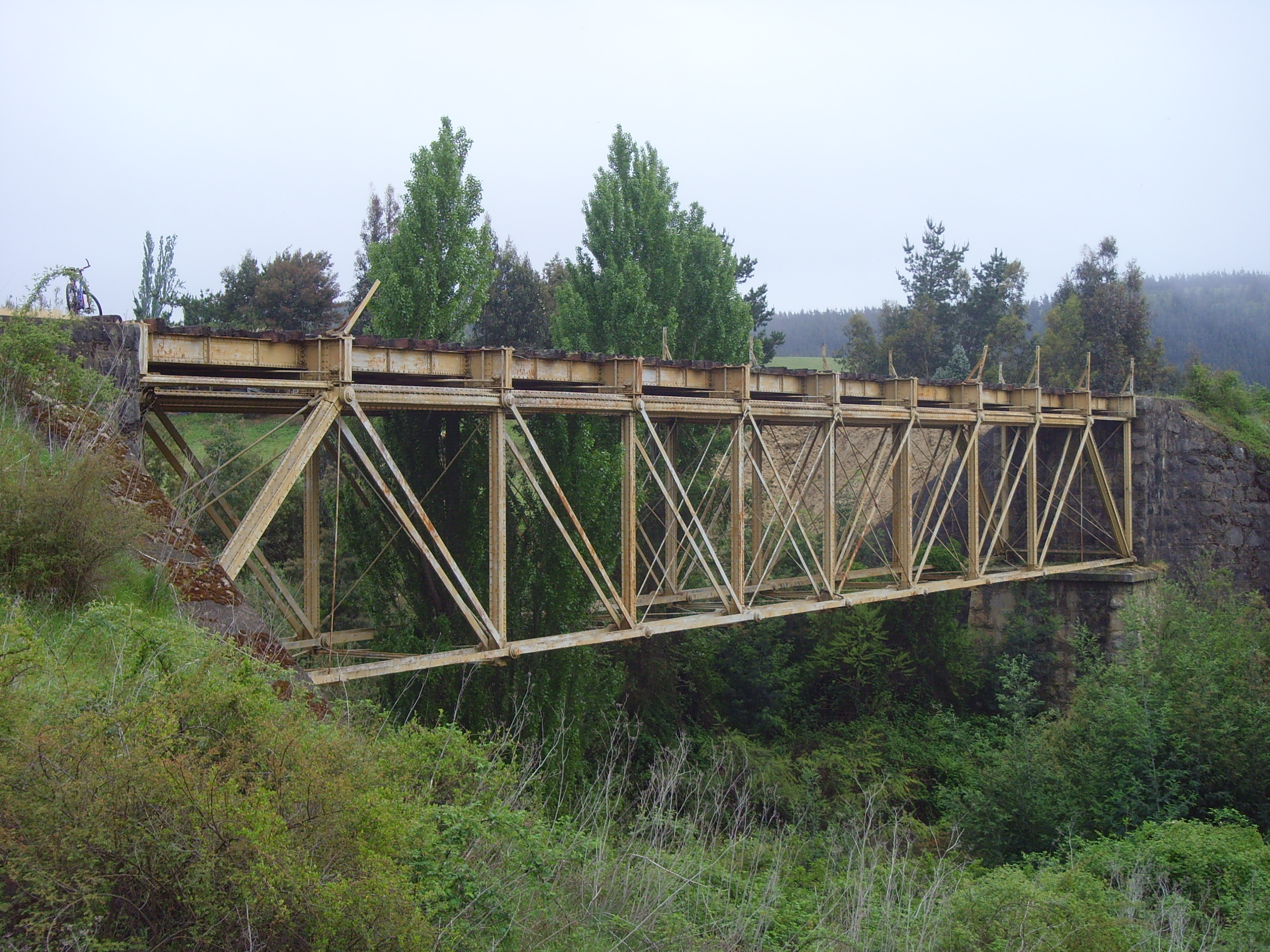 Old railway bridge into disuse. the tracks were removed